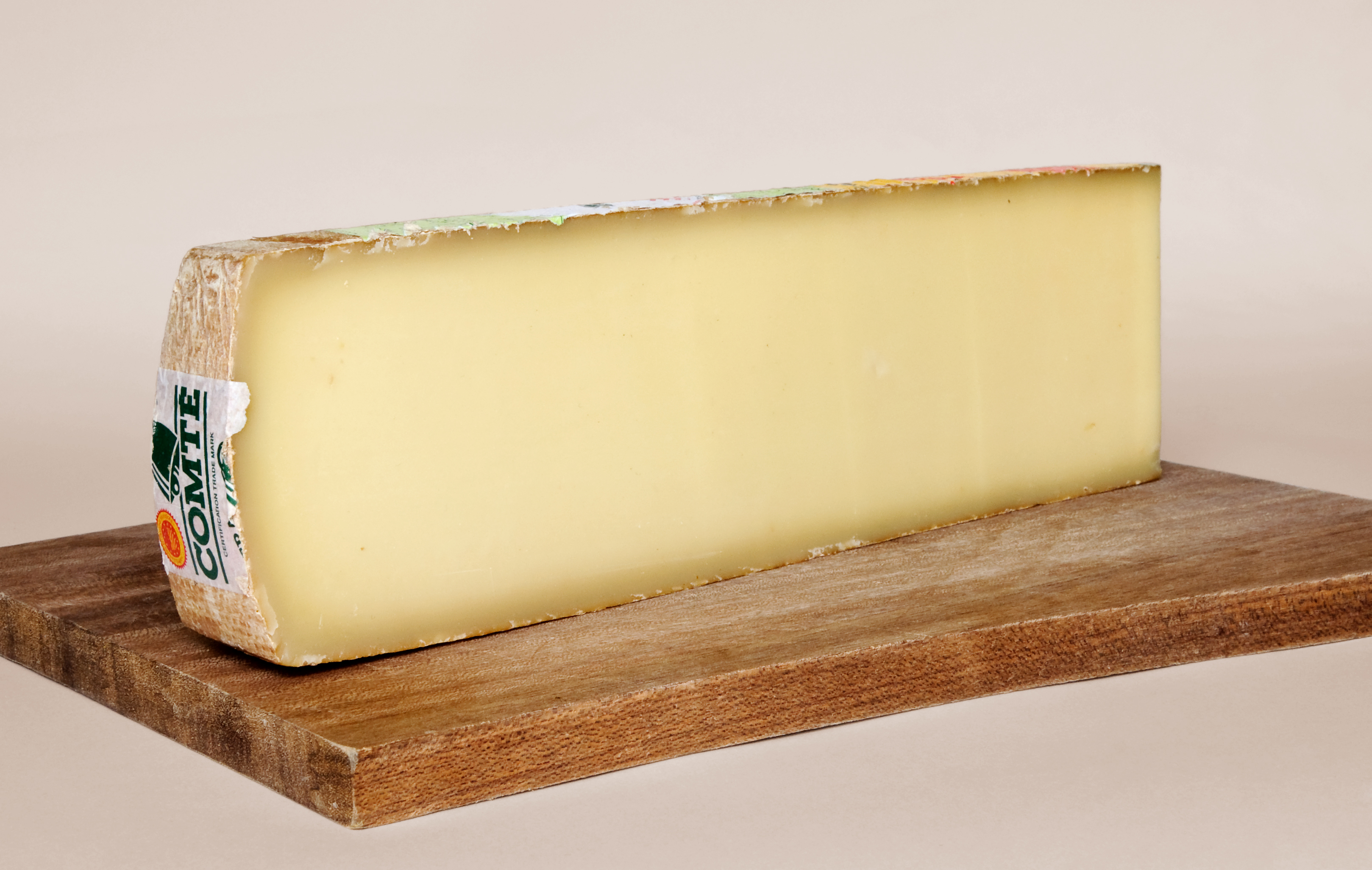 A slab of Comté, a French raw cow's milk cheese, labelled Protected Designation of Origin (PDO).